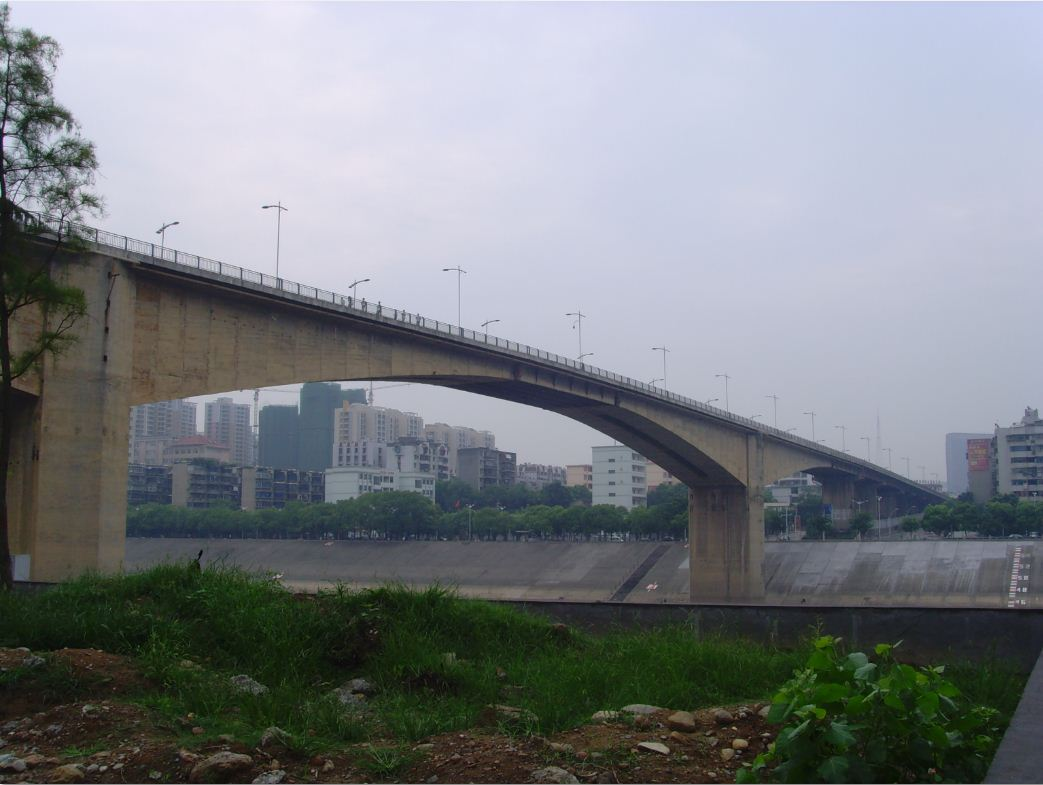 The 'big bridge' over the Chang Jiang (Yangtze River) — named No.3 River Big Bridge. Located in Yichang — Hubei–China.